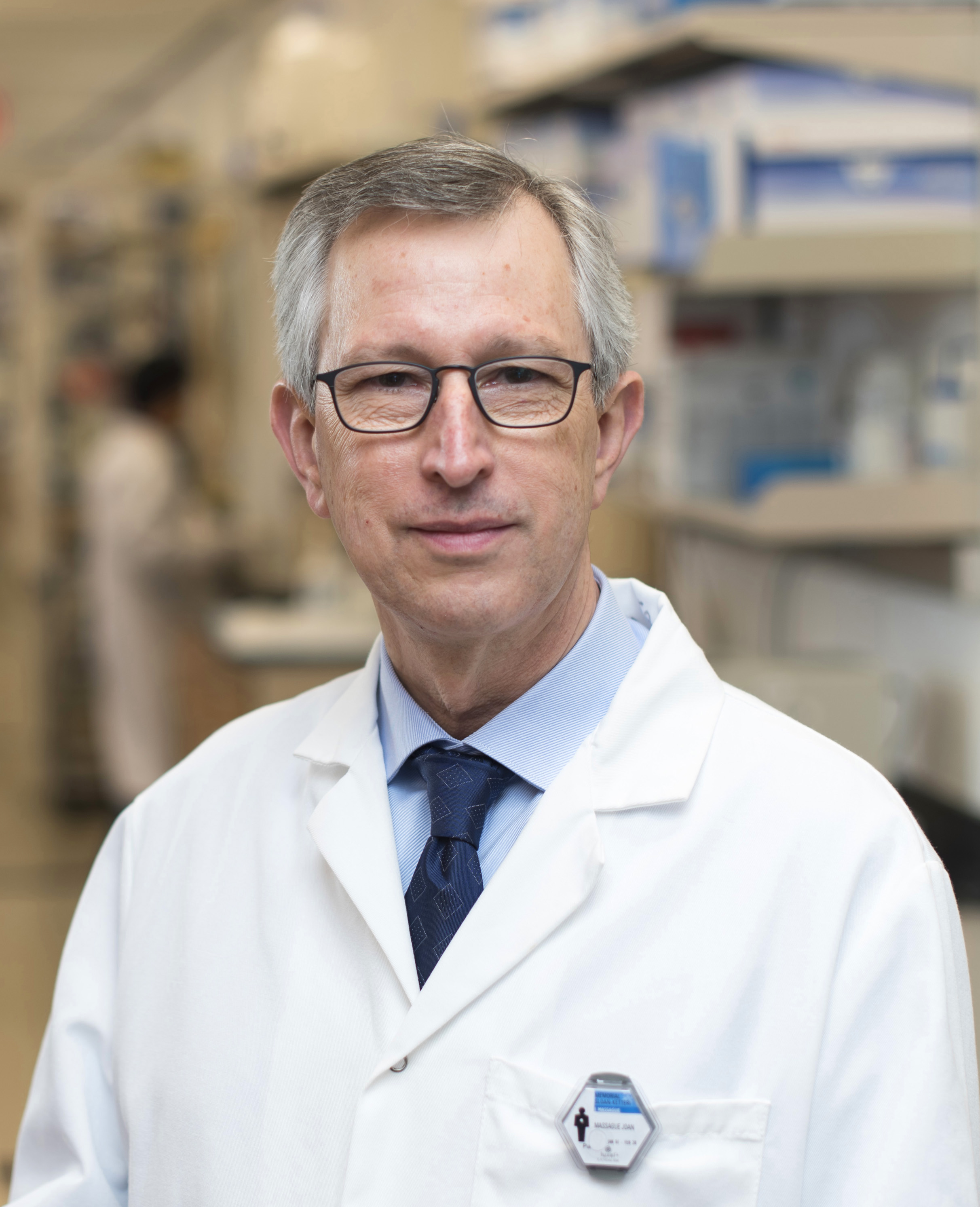 May 3, 2016 - New York, NY : Joan MassaguÈ, PhDDirector, Sloan Kettering Institute at Zuckerman Research Center (417 E. 68th Street). // Photo by Karsten Moran for MSKCC **IMAGE MADE FOR MSKCC -- MAY HAVE BEEN STAGED OR DIGITALLY ALTERED**